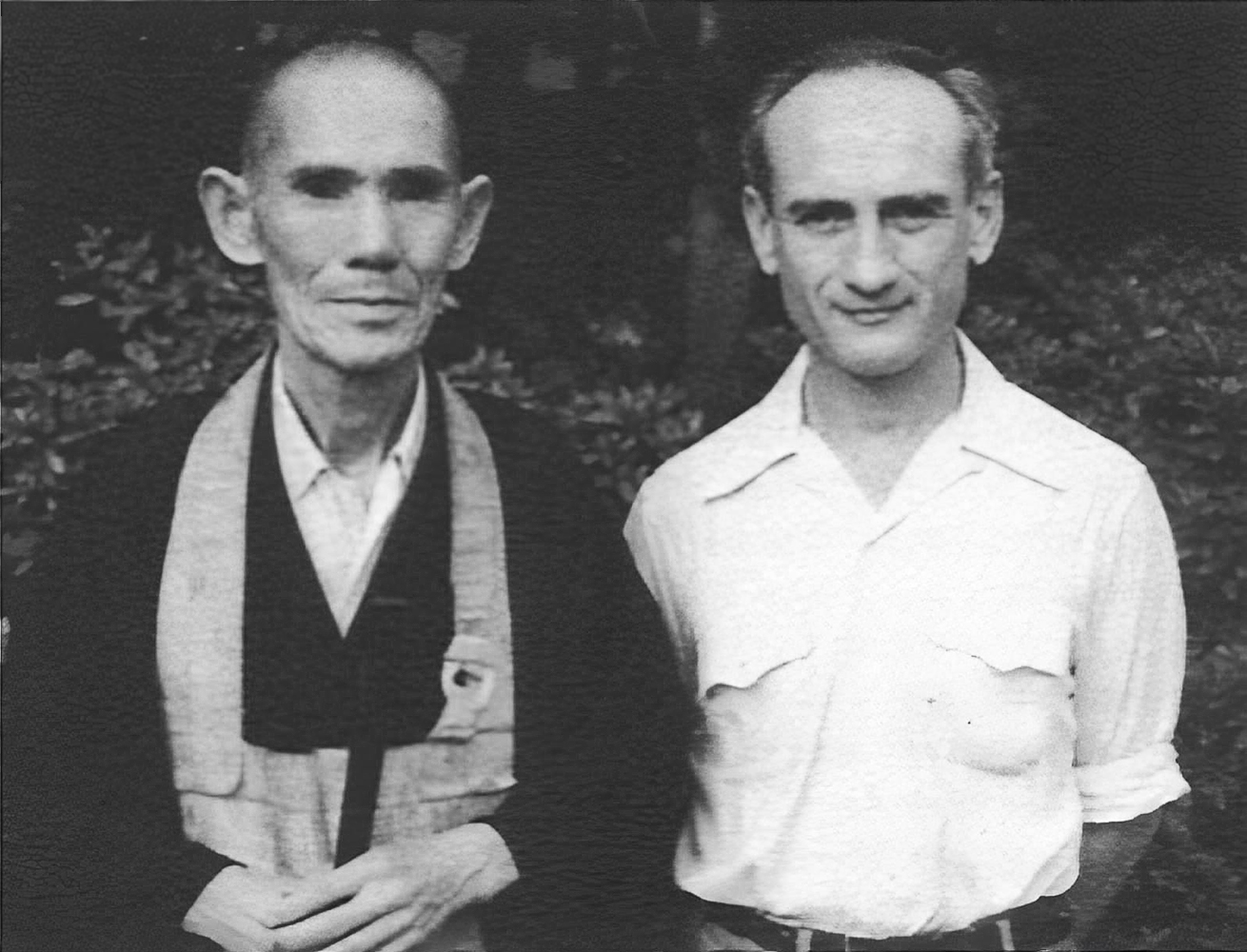 Info: Haku'un Yasutani and Phillip Kapleau Source: Wikipedia Original uploader (attribute work to this person): User:Golgofrinchian URL: [1]